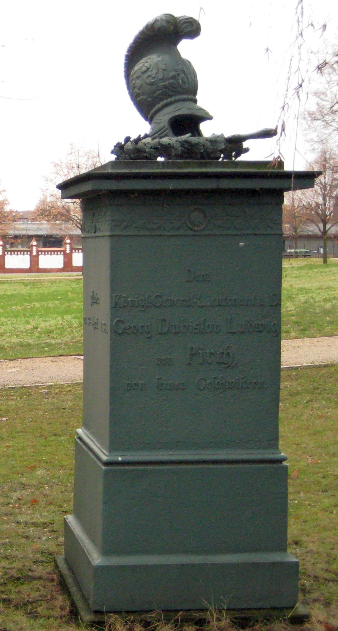 grave of Georg Dubislaw Ludwig von Pirch (1763-1836) on Invalidenfriedhof cemetery in Berlin, designed by Karl Friedrich Schinkel